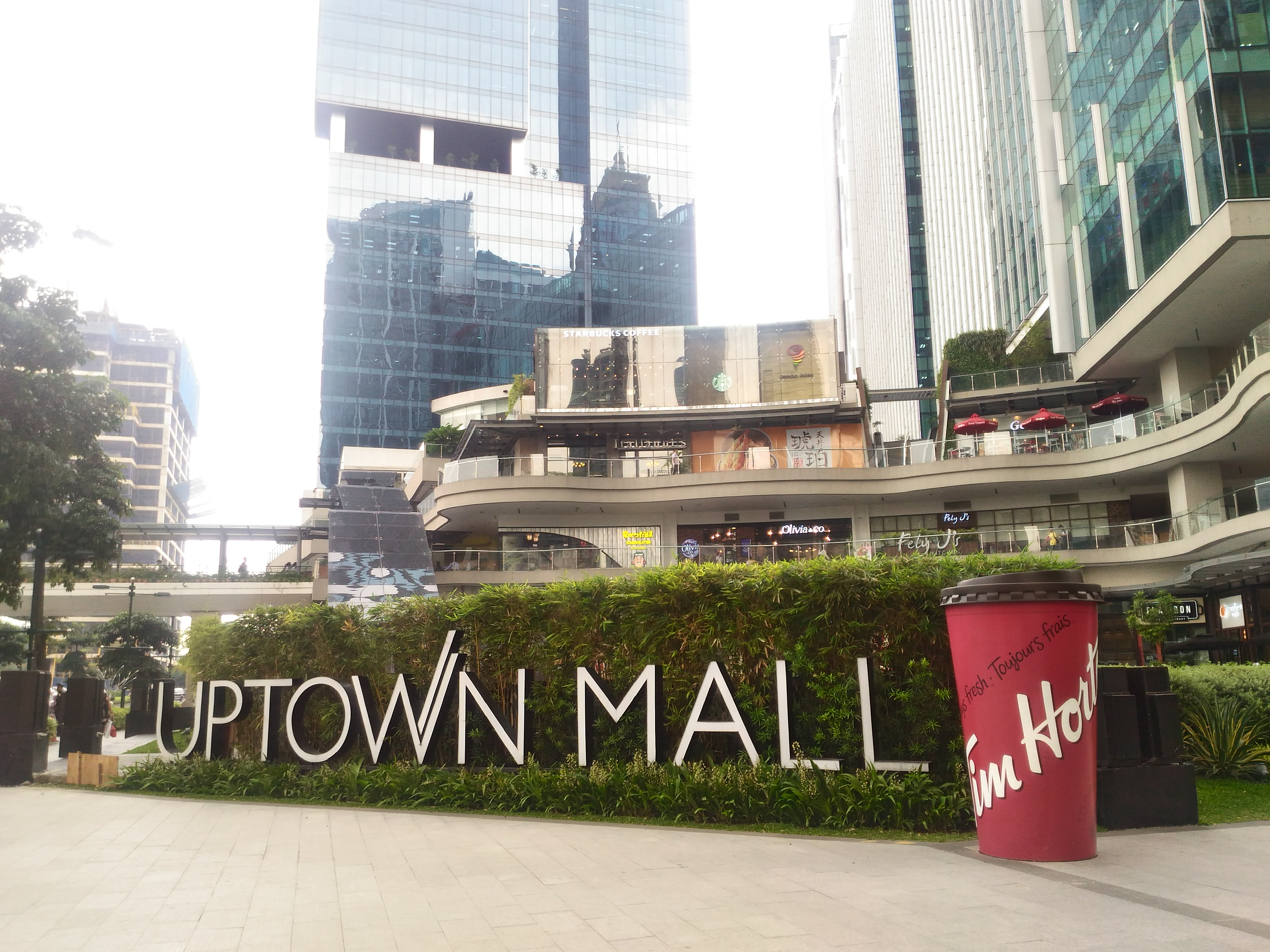 Uptown Mall, a luxury shopping mall located along 36th Street, Uptown Bonifacio, Bonifacio Global City, Taguig, Metro Manila, Philippines